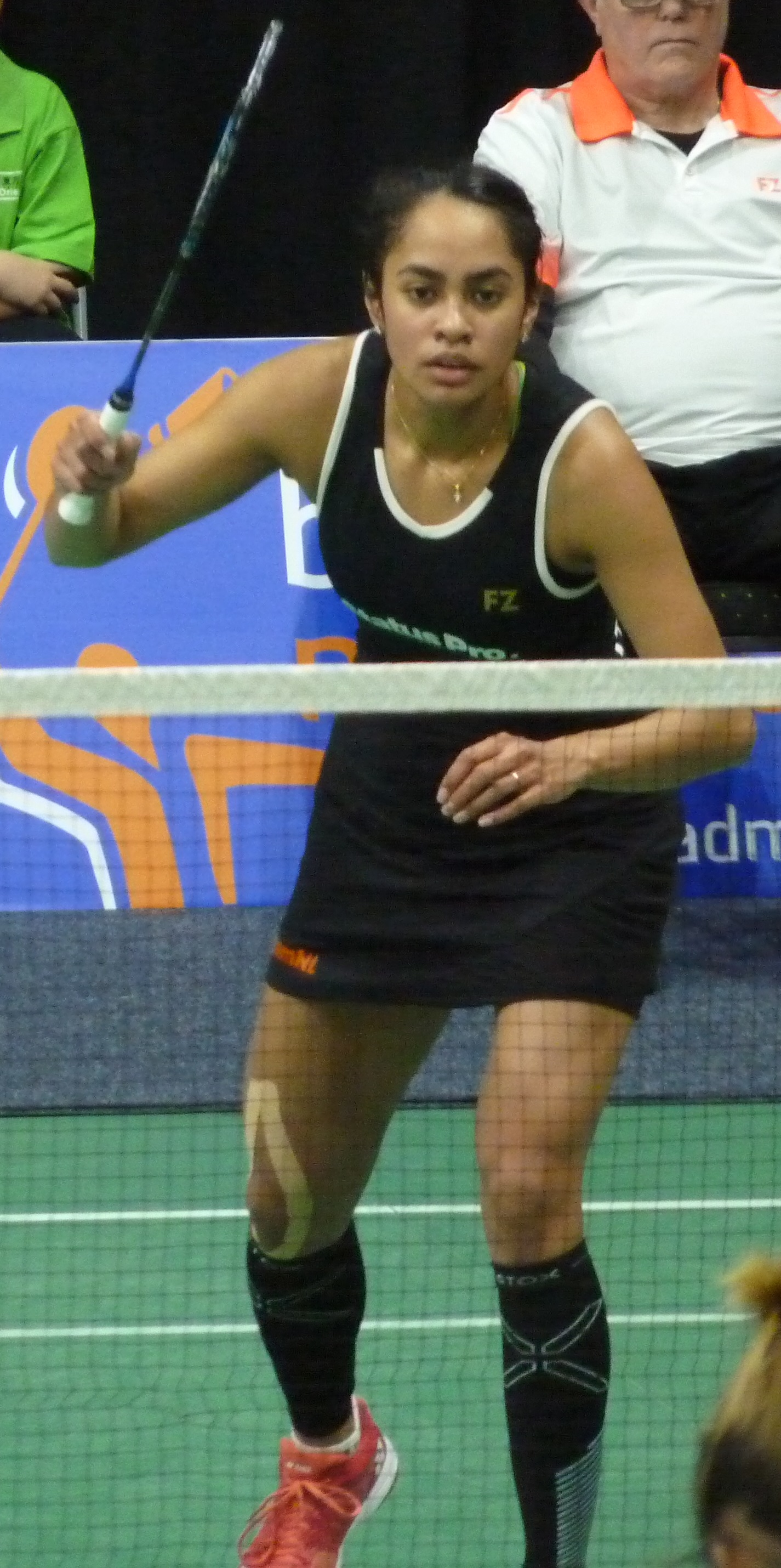 Gayle Mahulette (the Netherlands)